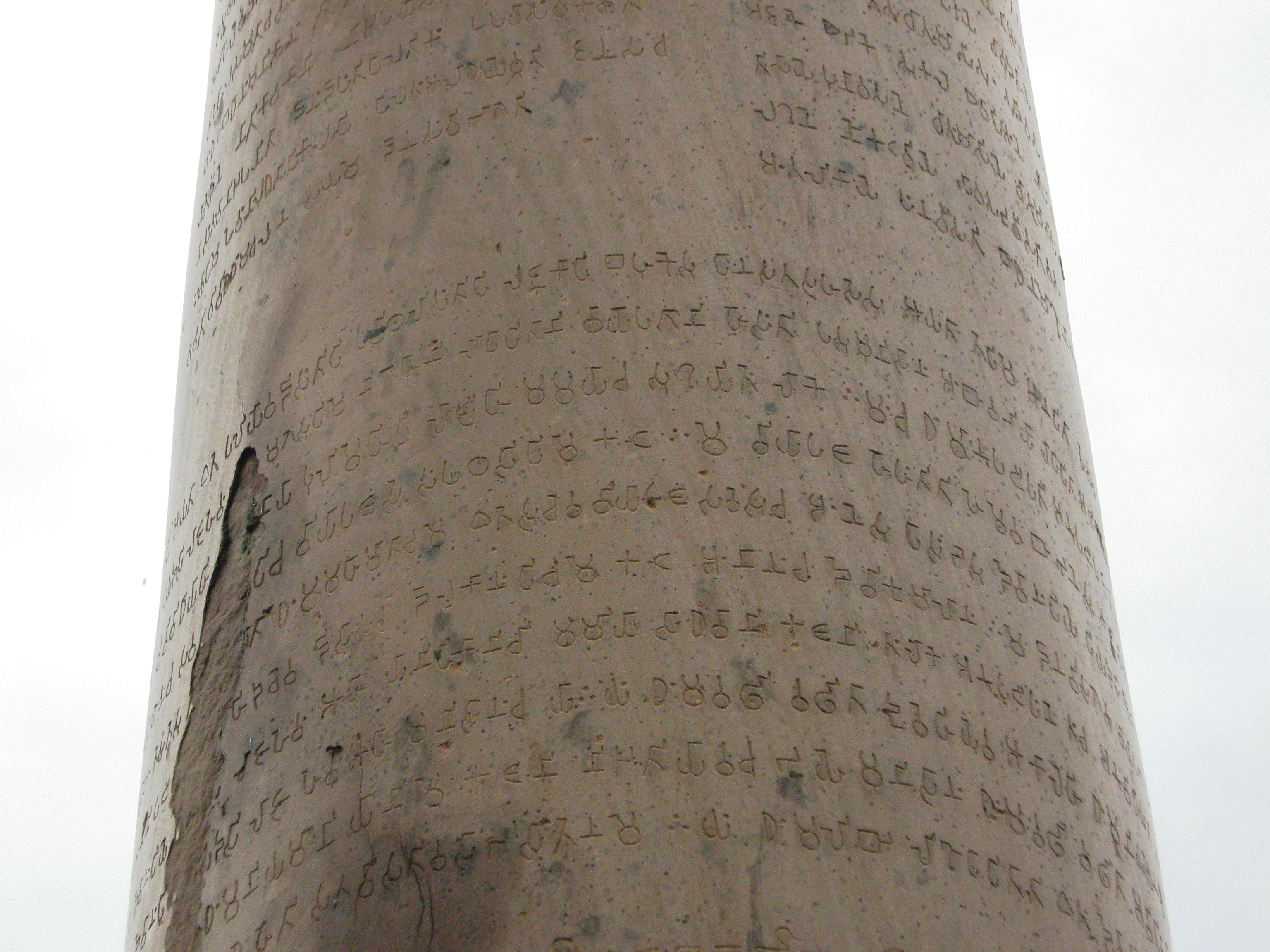 Inscriptions on Ashoka Pillar at Feroze Shah Kotla, Delhi